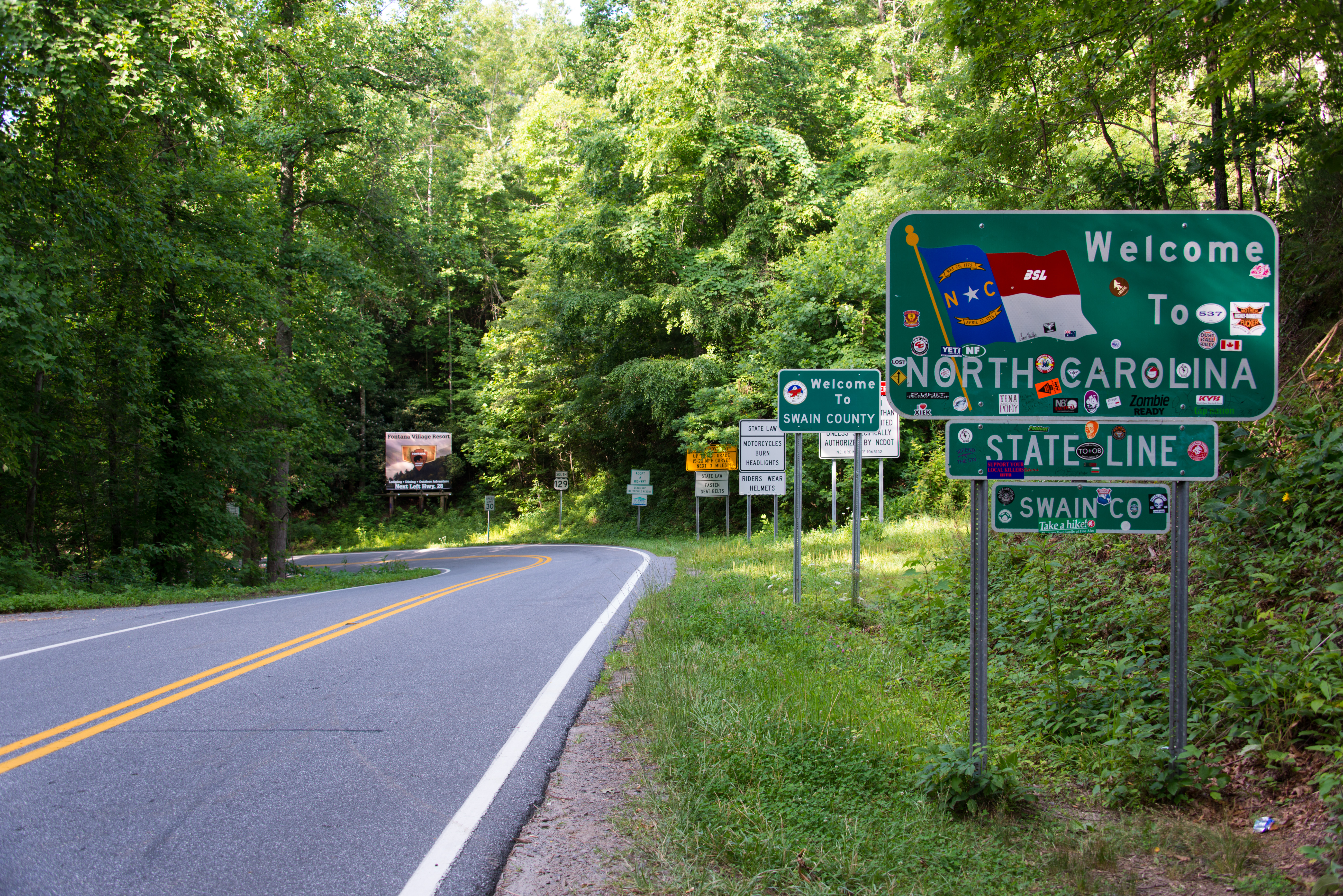 Welcome to North Carolina and other various signs after crossing Deals Gap, from Tennessee.